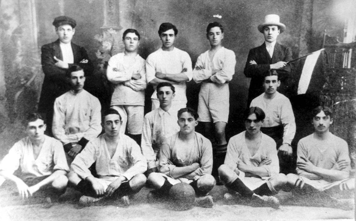 A Velez Sarsfield team.